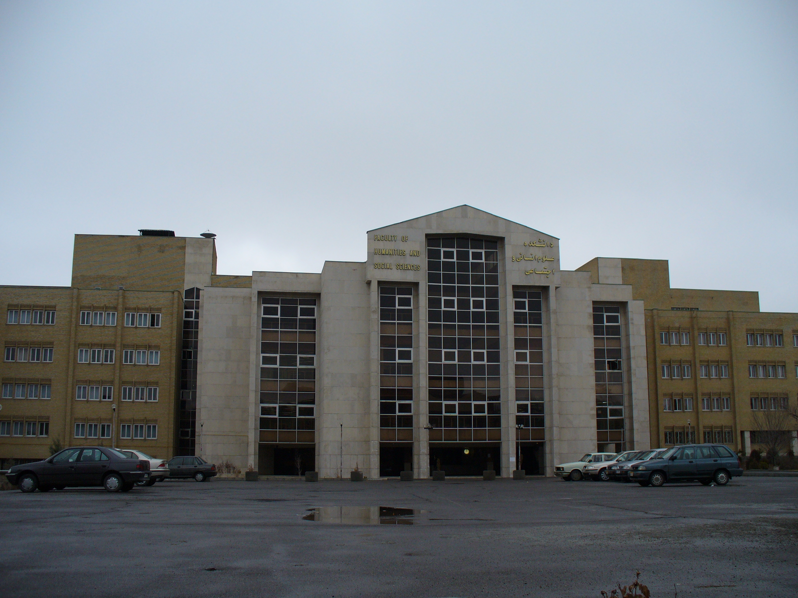 University of Tabriz - Faculty of Humanities and Social Sciences